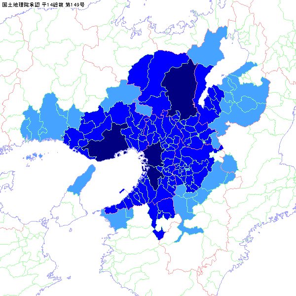 A map of Keihanshin Major Metropolitan Area, according to Japan Statistics Bureau.